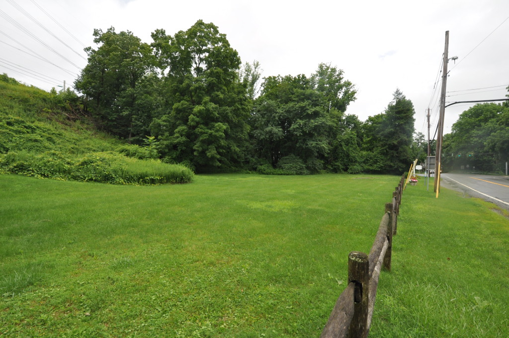 The site where Sarles' Tavern stood, Millwood, New York.